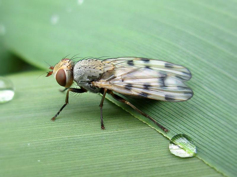 Melieria omissa (Ulidiidae sp.), Texel, the Netherlands